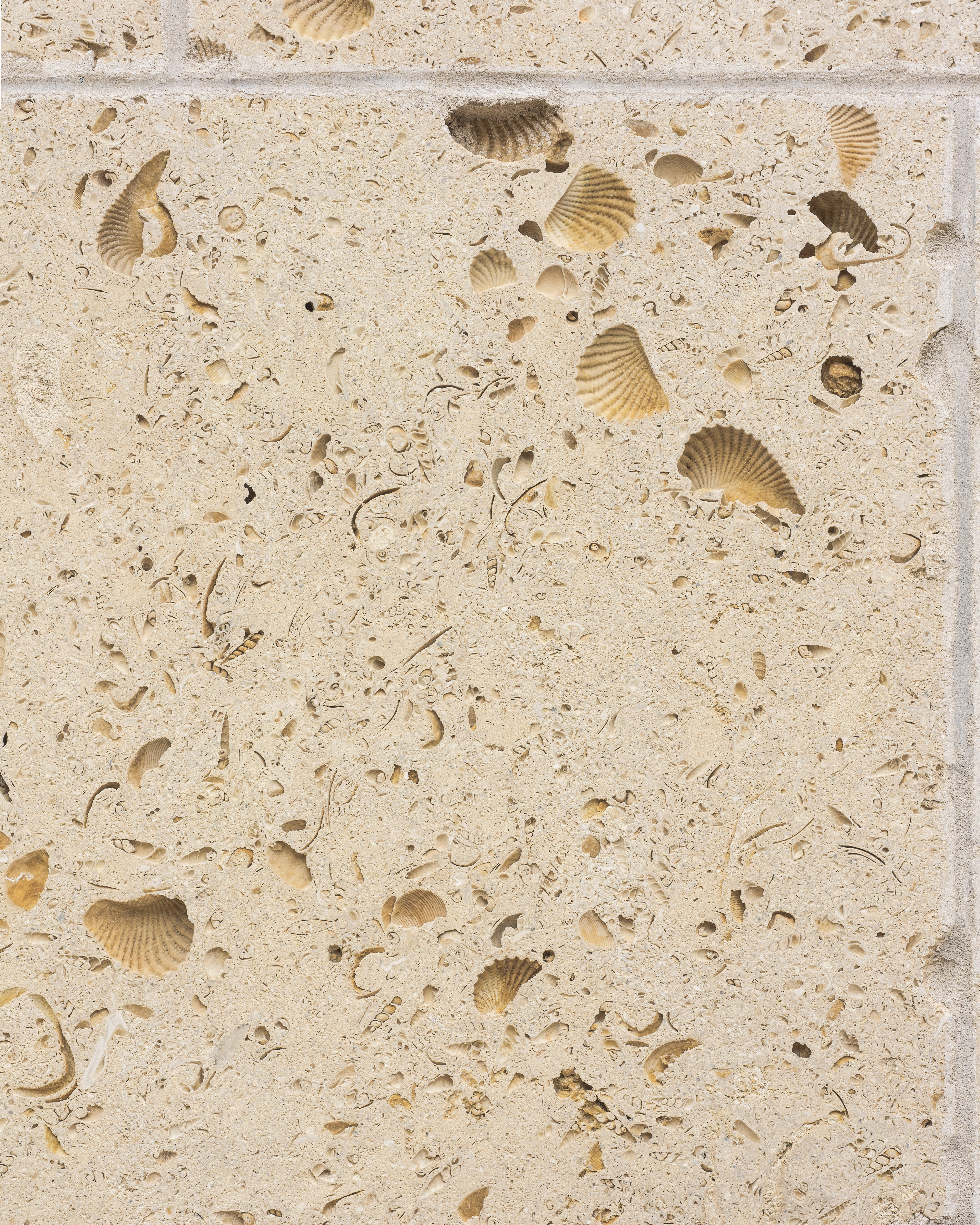 Texas Cordova Shell Limestone. Detail of wall at Amon Carter Museum of American Art, Fort Worth, Texas.